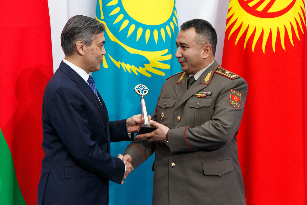 Официальный визит Министра обороны Российской Федерации генерала армии Сергея Шойгу в Нур-Султан